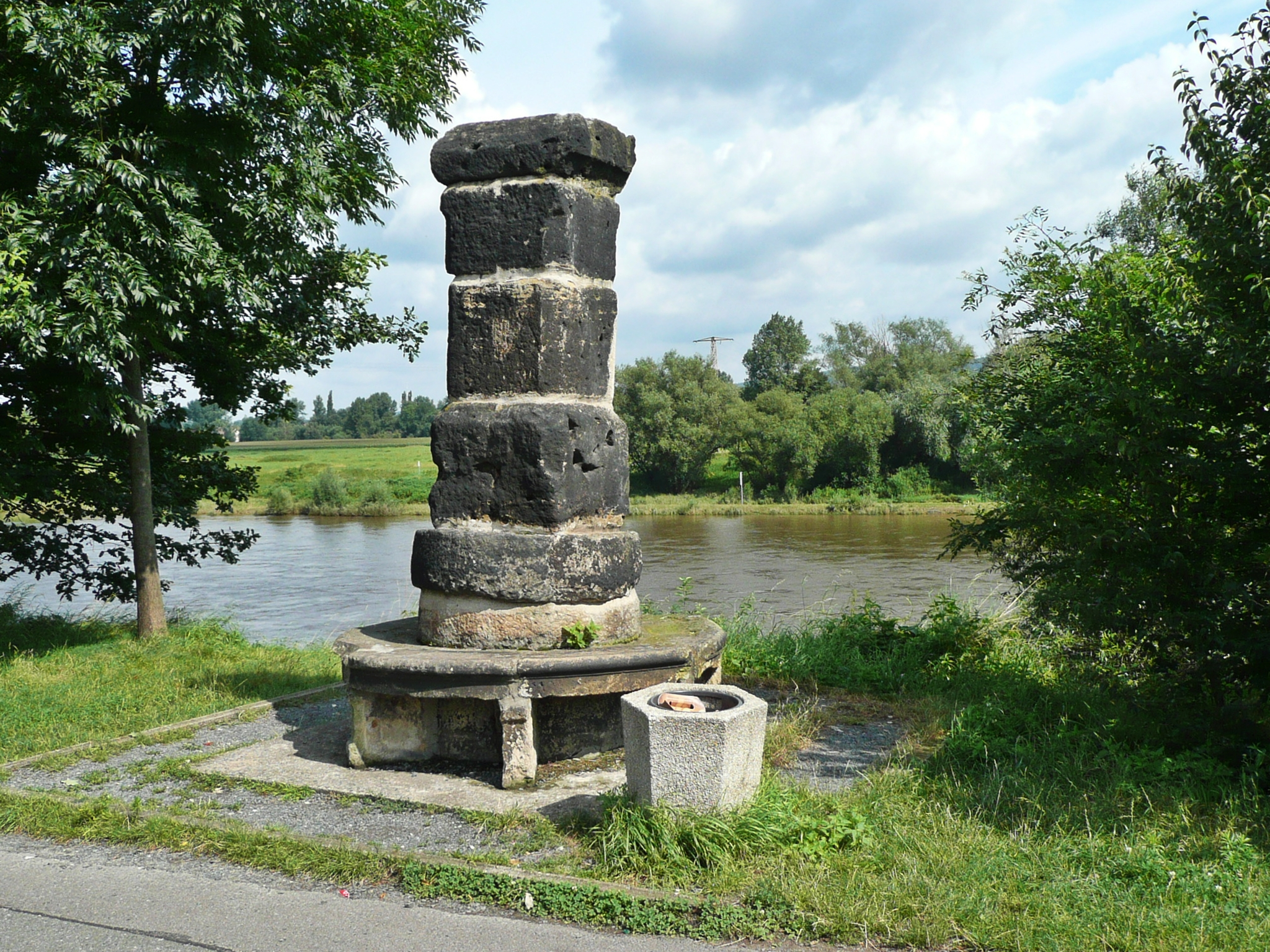 This image shows the "Tetzelsäule" (Tetzel´s column) on the river Elbe near Pirna.